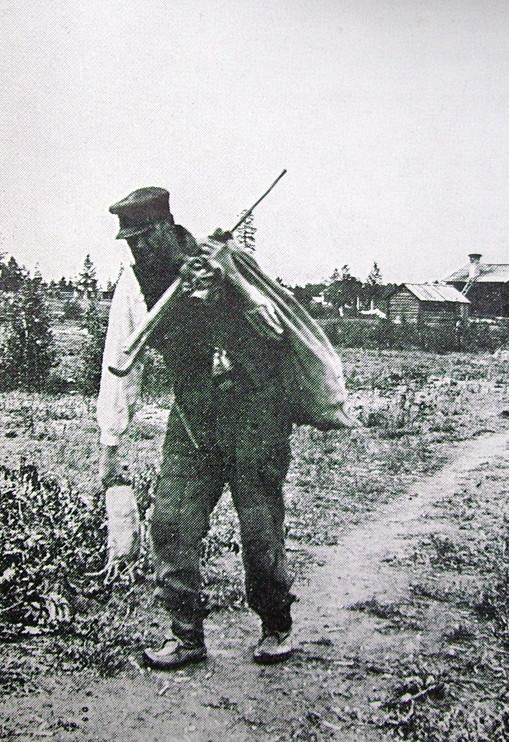 Picture of beggar from Ångermanland